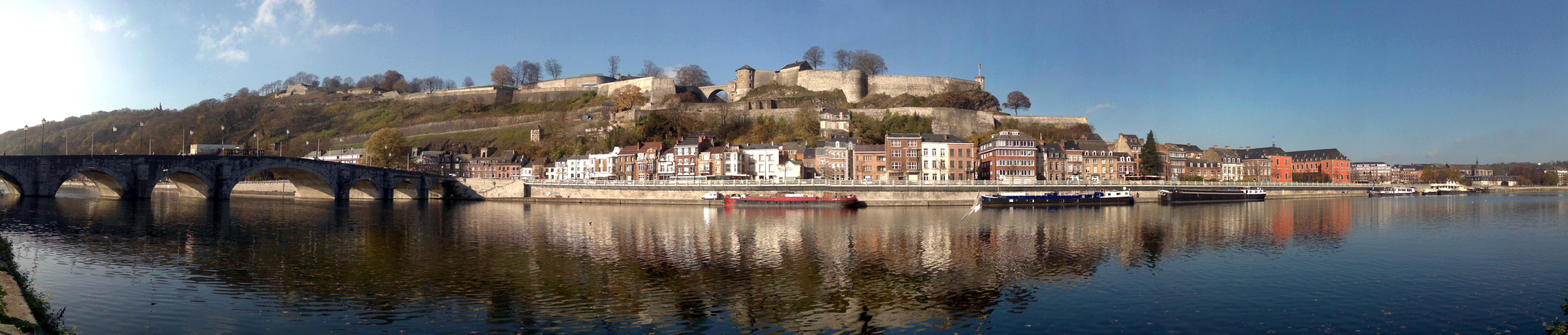 A view of the citadel of Namur, pic taken from Jambes sideUnknown une vue de la citadelle de namur,photo prise de la rive de jambes